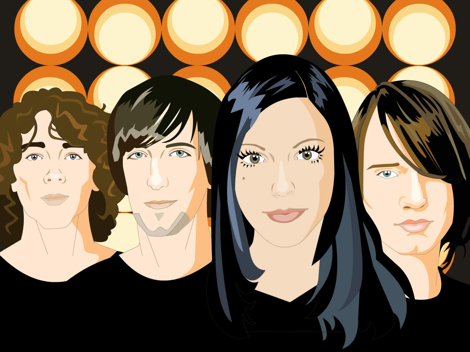 In 2001 I illustrated the band Silbermond in Berlin. This is a vector graphic.